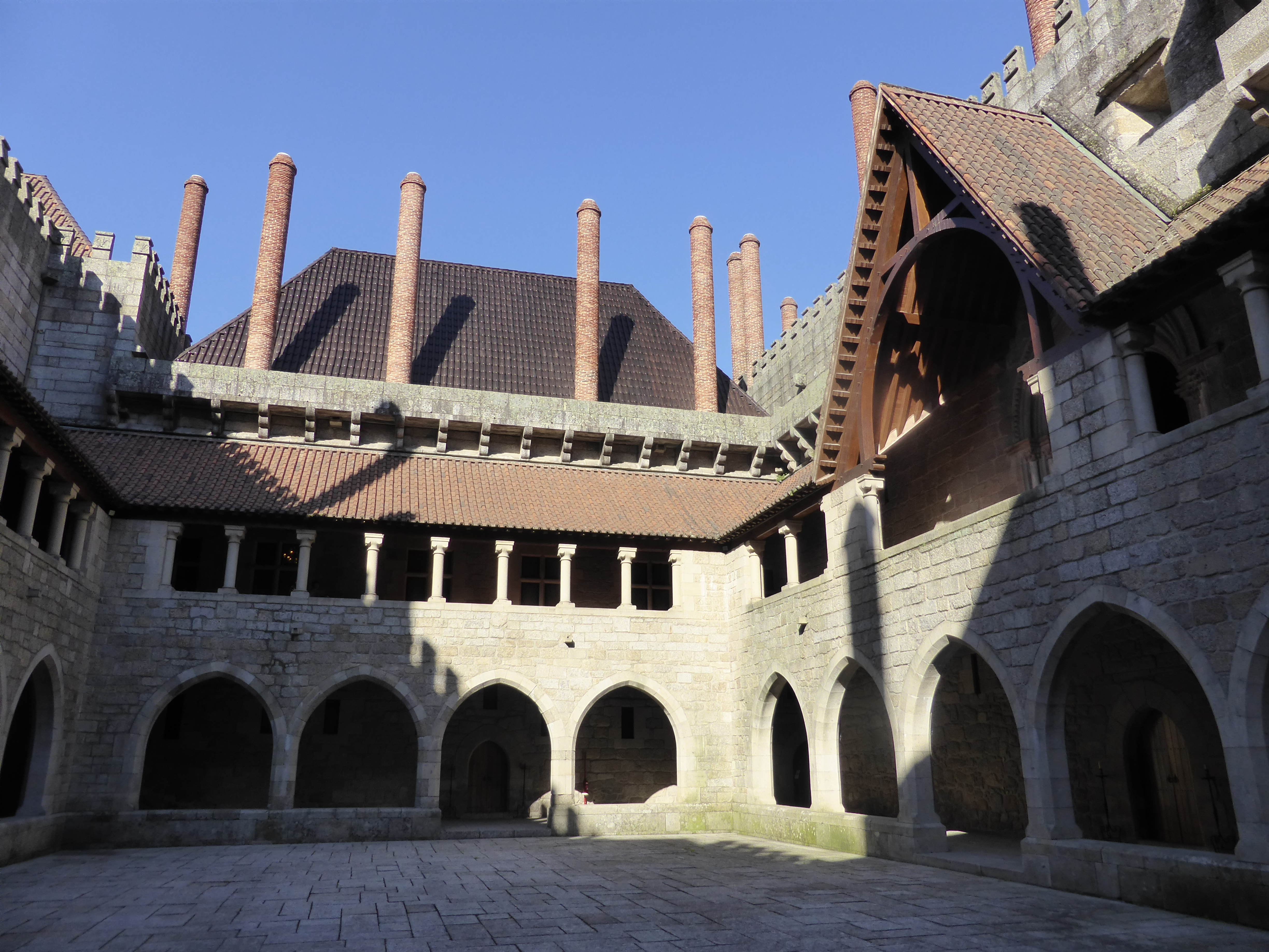 Palace, galleried landings, chapel on right